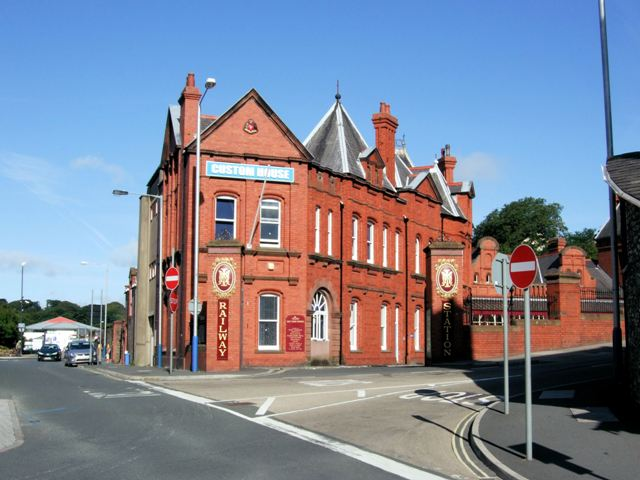 The approach to Douglas railway station, Isle of Man Railway.